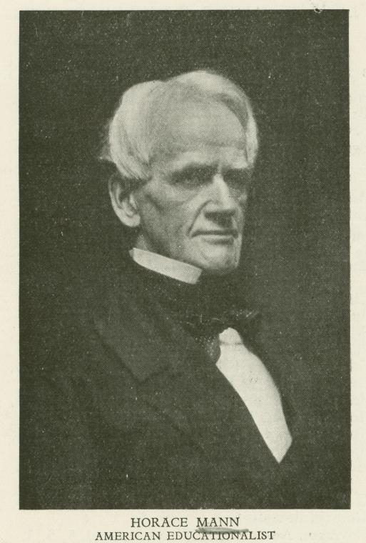 American education reformer Horace Mann